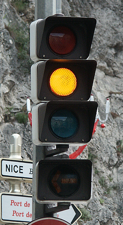 Feu orange de circulation. Traffic signal in France displaying yellow.